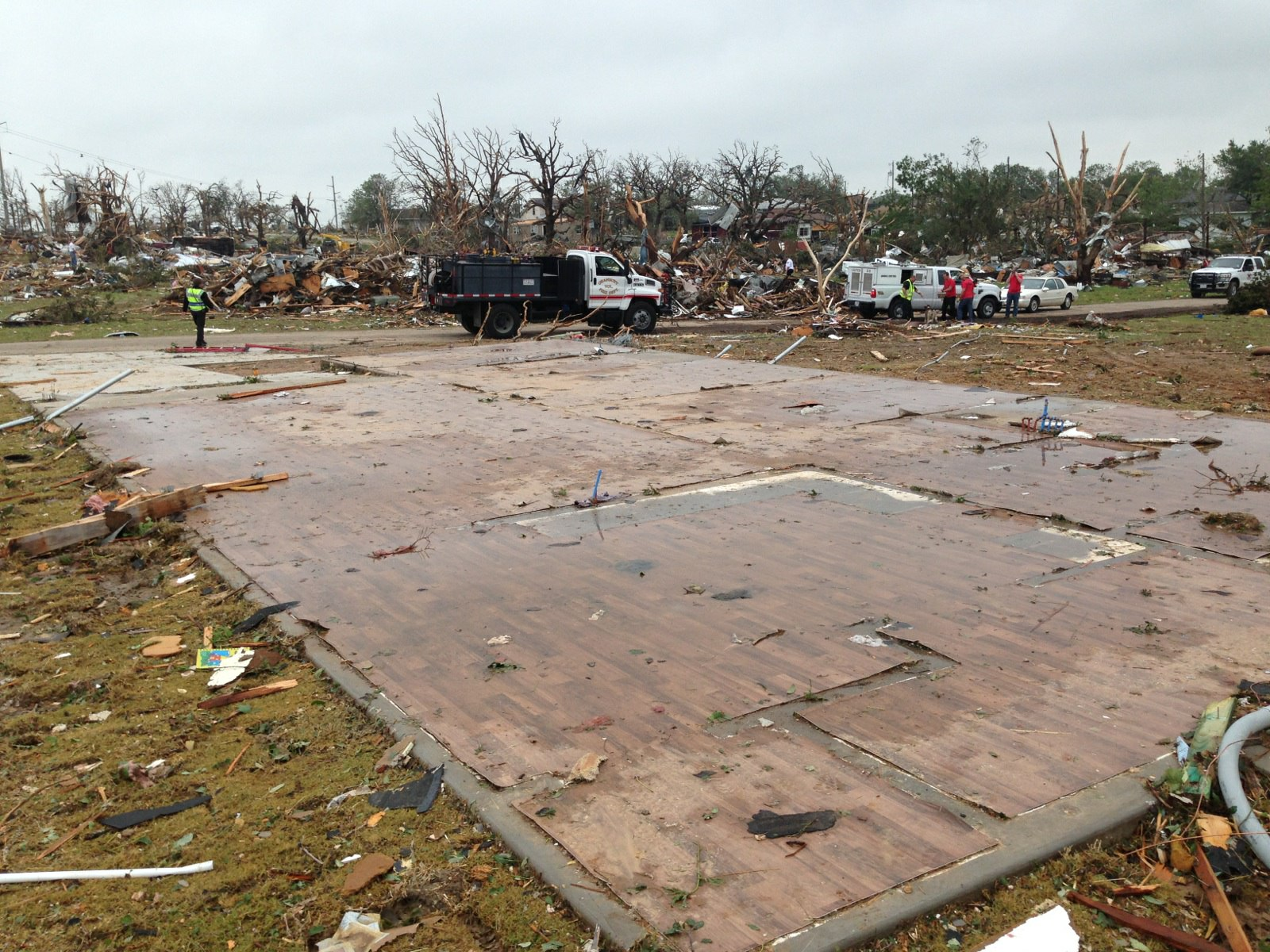 A home swept clean off its foundation after a violent tornado in Texas on May 15, 2013.